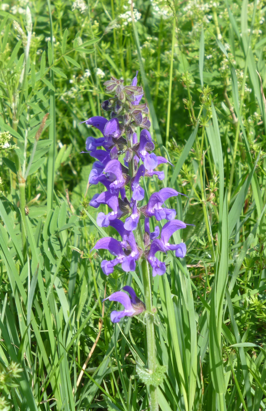 Orchids - to be identified - Felsenberg-Berntal Nature Reserve, south-east of Herxheim am Berg, Palatinate.